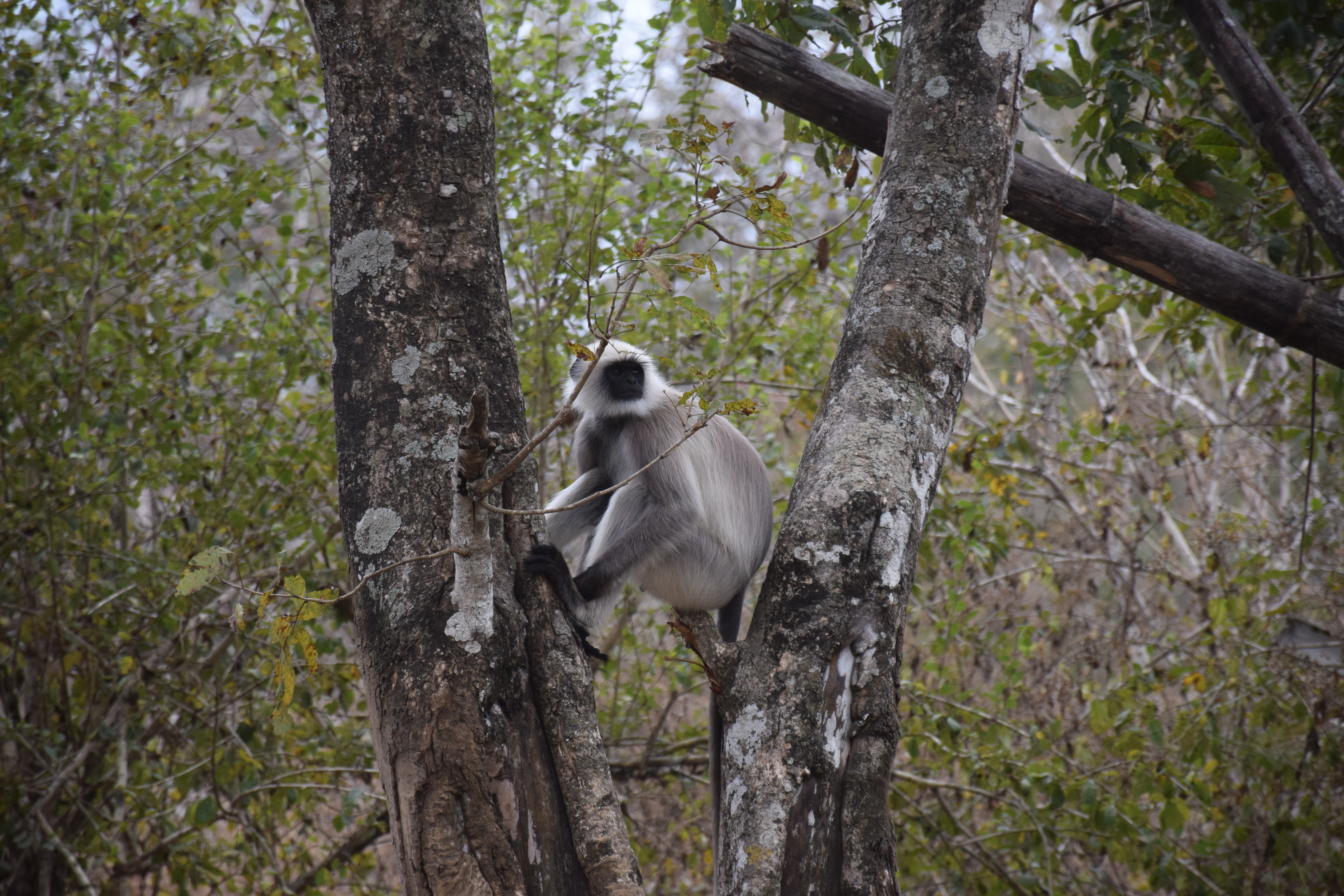 Hanuman Langur at Wayanad wildlife sanctuary